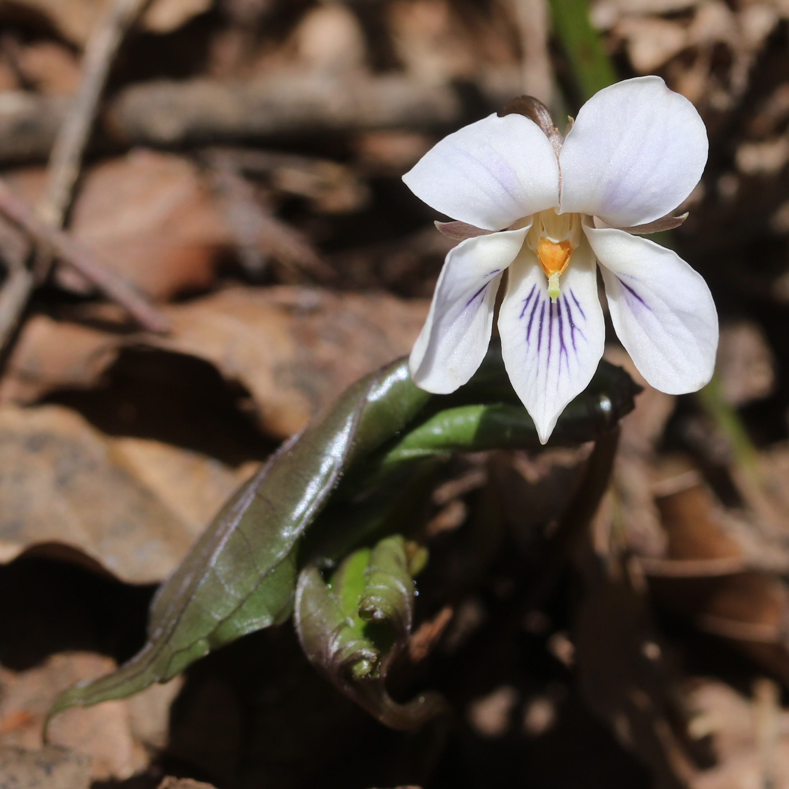 Viola vaginata f. albiflora in Mount Yokoyama, Nagahama, Shiga prefecture, Japan.